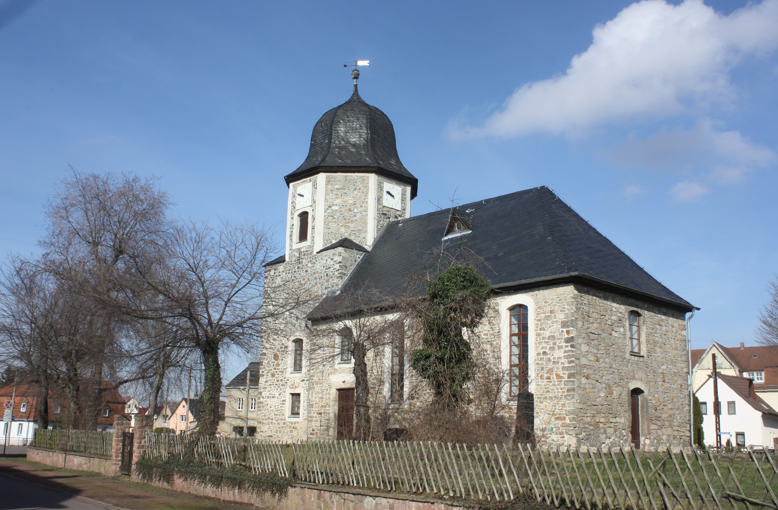 Kanena (Halle (Saale)), the village church St. Stephan